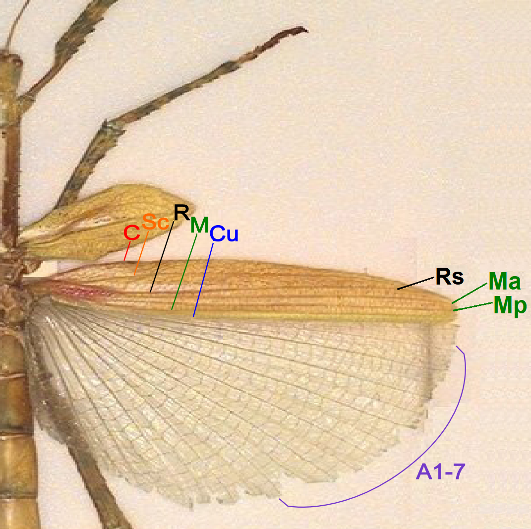 The structure and venation of species of Phasmatodea.